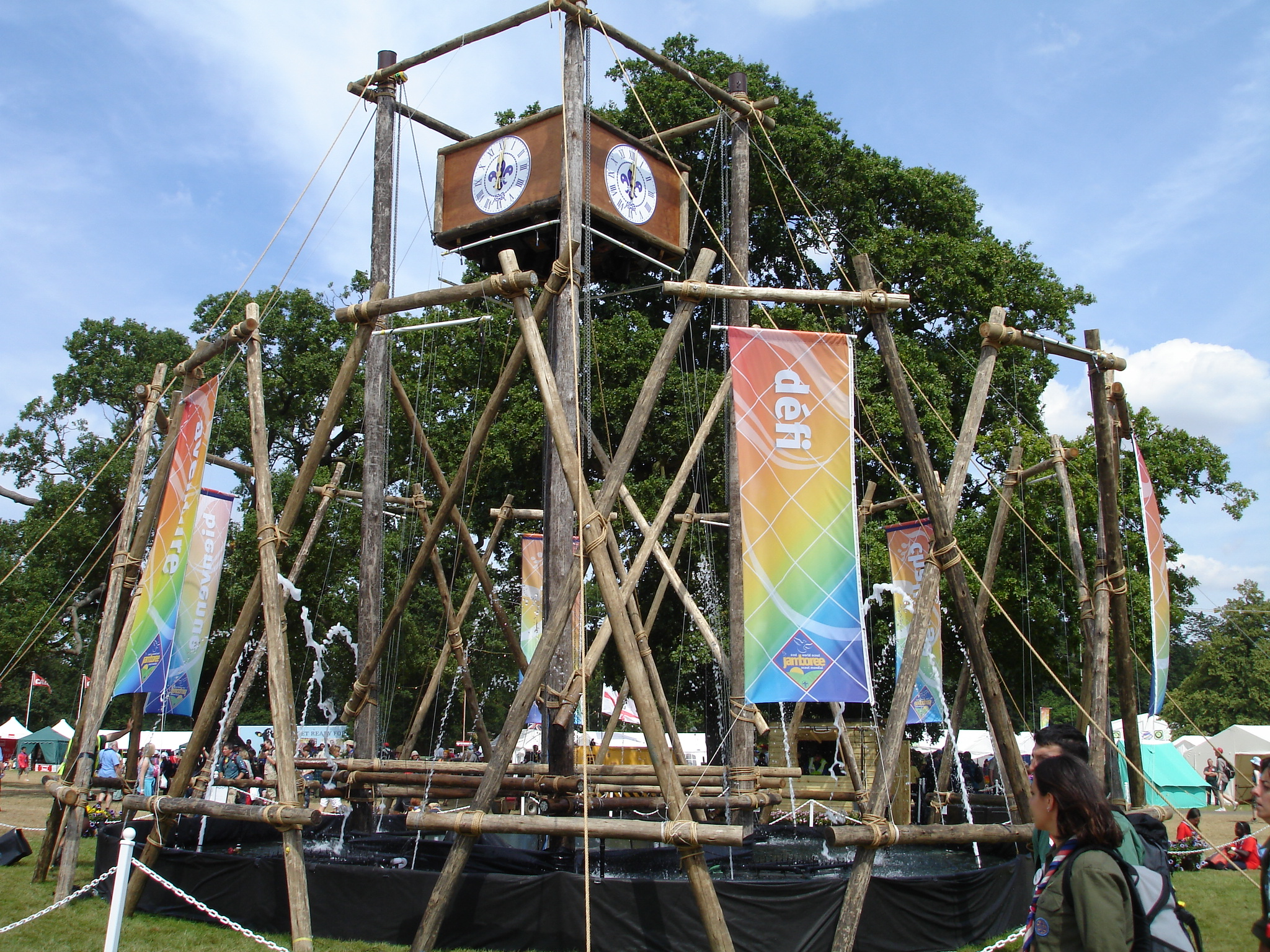 The central clock at the World Scout Jamboree 2007.